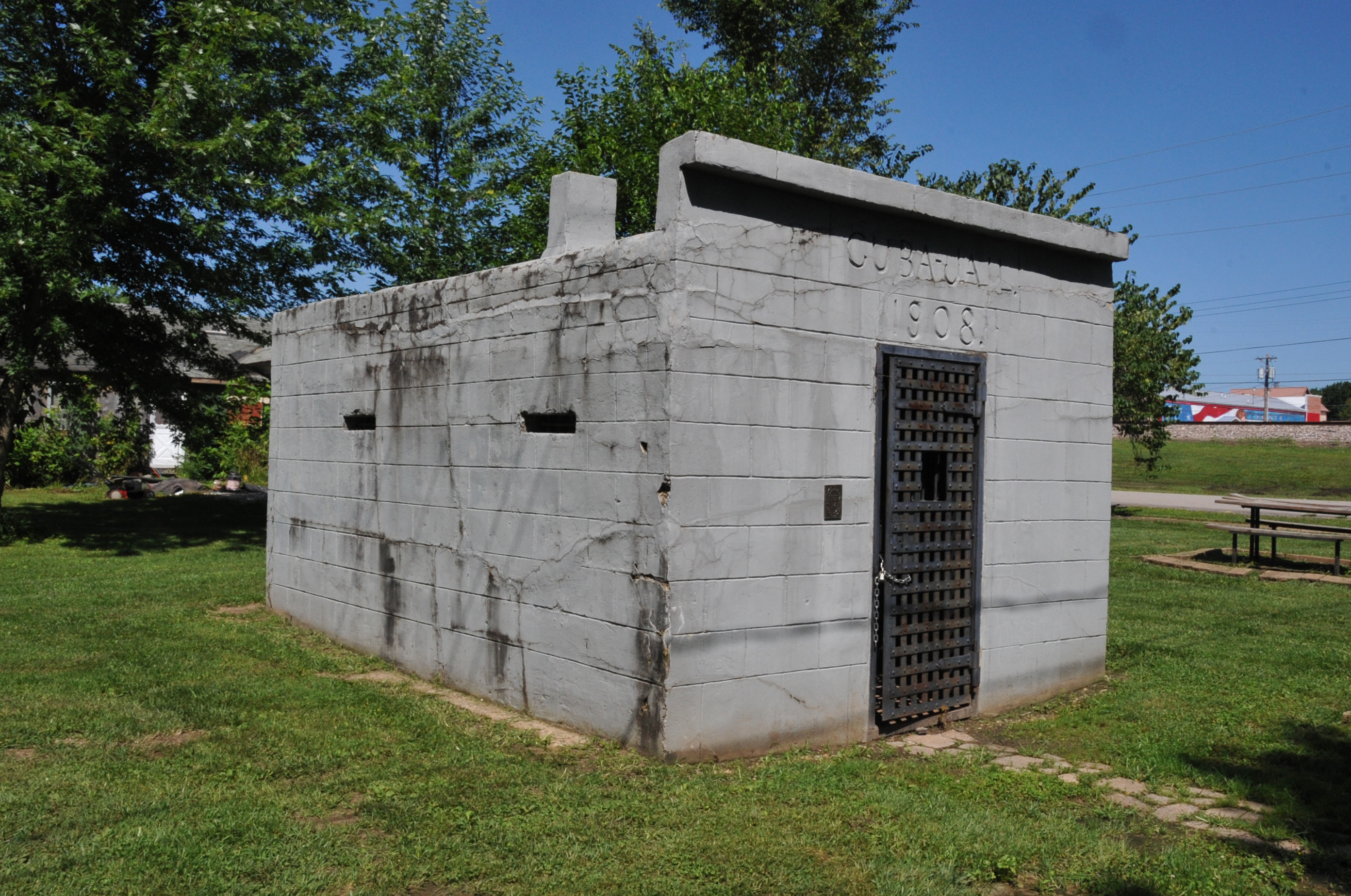 CONCRETE BLOCK COMPLETED IN 1908. THERE WERE ACTUALLY TWO ROOMS INSIDE, ONE FOR THE GUARD AND A SEPARATE ROOM WITH TWO IRON BUNKS.